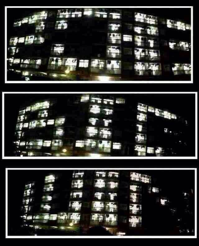 Jiangmen NO.1 Middle School--Lights-out Ceremony for encouraging senior 3 students who will take the coming college entrance examination.